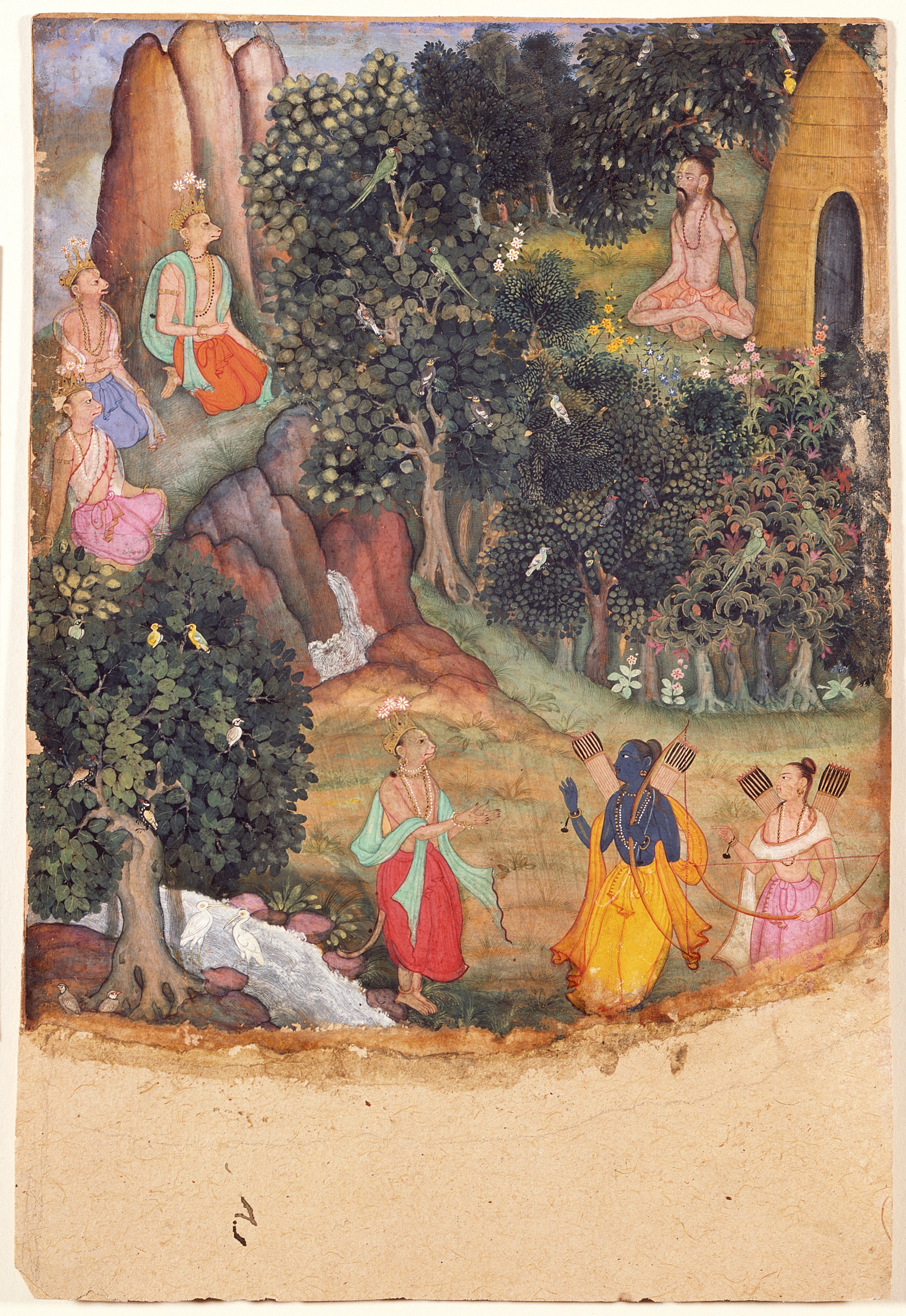 India, Sub-Imperial Mughal, Agra (?) Rama and Lakshmana Meet Sugriva at Matanga’s Hermitage, Folio from a Ramayana (Adventures of Rama) Not currently on public view